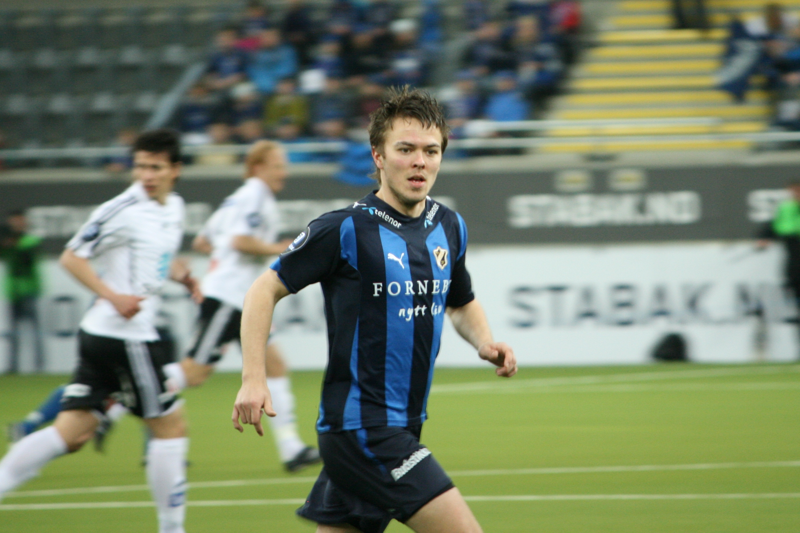 Footballer Pálmi Rafn Pálmason.